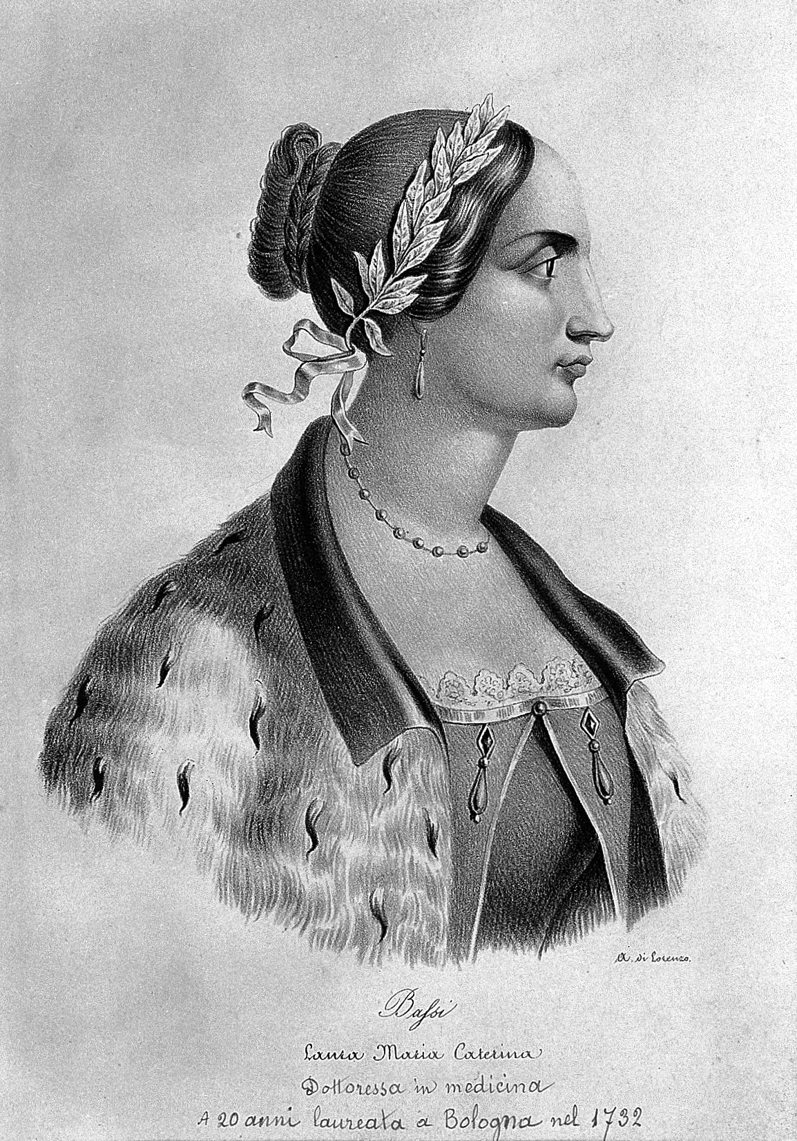 Image of Laura Maria Caterina Bassi (1711-78), mathematician and philosopher at Bologna. Medical doctor? Iconographic Collections Keywords: Laura Maria Caterina Bassi; A. di Lorenzo